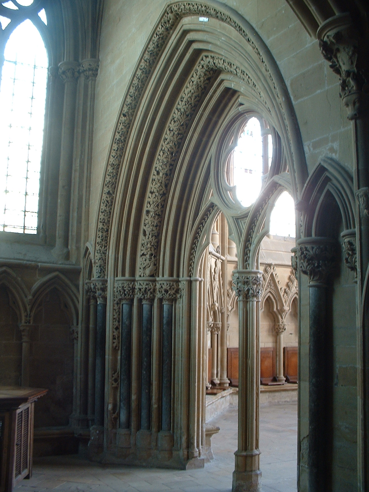 The entrance to the chapter house at Southwell Minster, Nottinghamshire, with the famous carved foliage. Taken by Necrothesp, 25 October 2005.